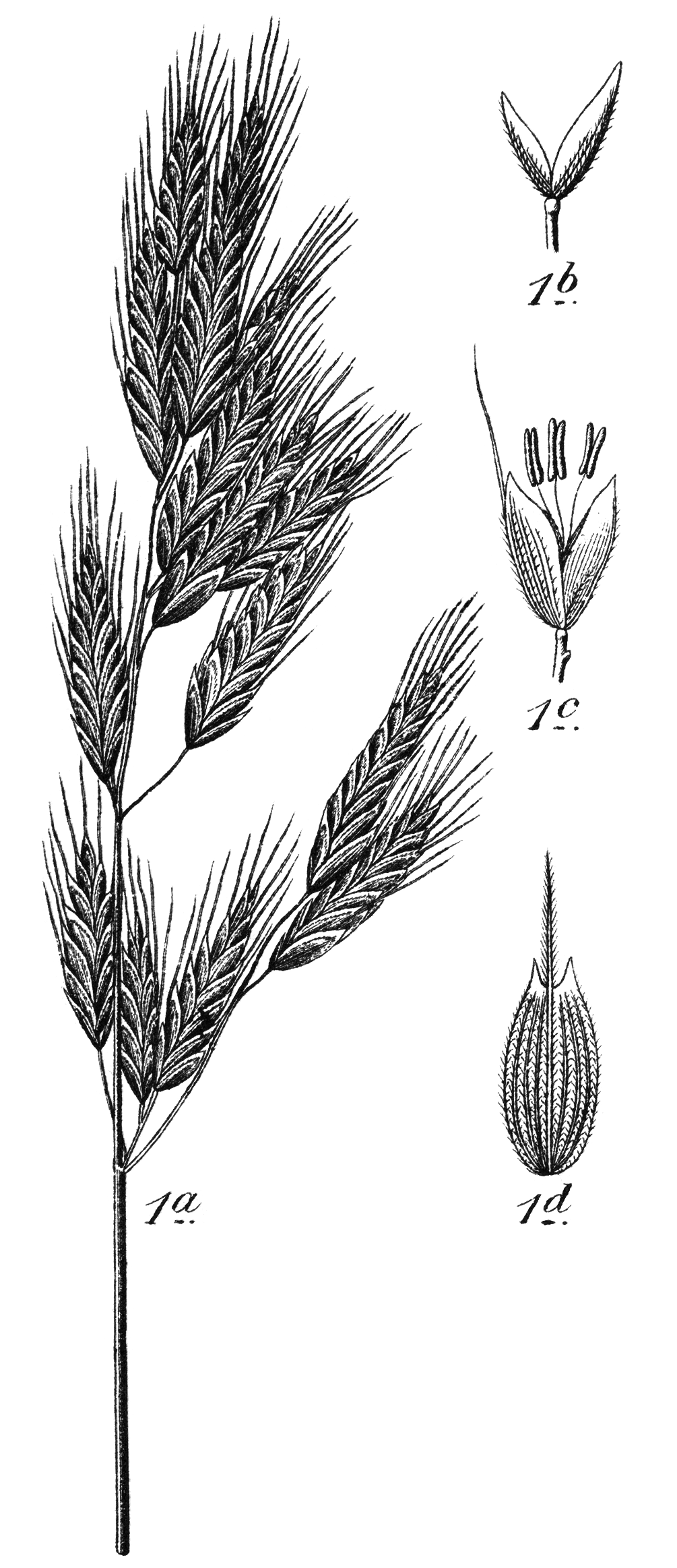 Original caption: 1. Weiche Trespe, Bromus mollis L. [syn. of Bromus hordeaceus L.]